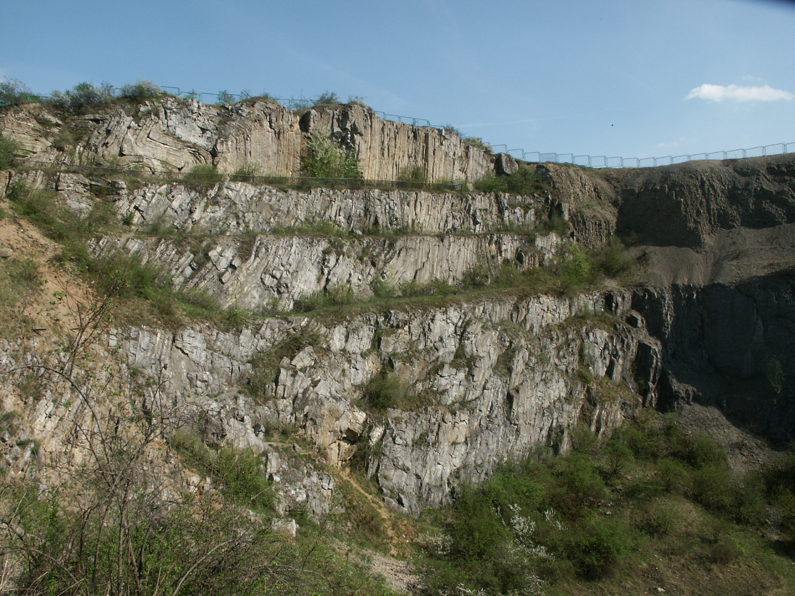 Slichowice nature reserve in Kielce in a former quarry, showing folding of Variscan orogeny period.